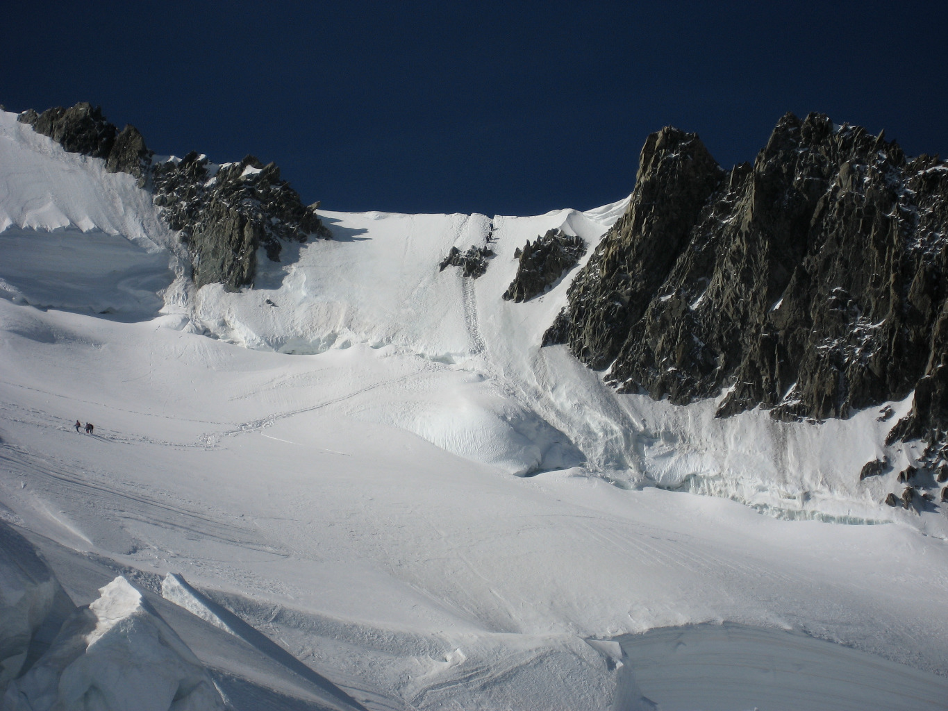 Col du Mont Maudit - North side